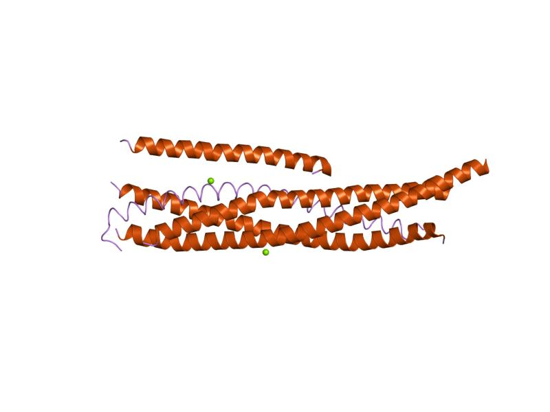 Cartoon representation of the molecular structure of protein registered with 1kil code.